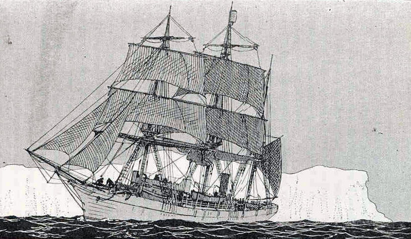 French ship Pourquoi Pas ?. Original caption: Pourquoi-Pas, Navire qui servit au dr Charcot pour sa derniere expedition dans l'Antarctique; appartient maintenant au Museum d'Histoire Naturelle